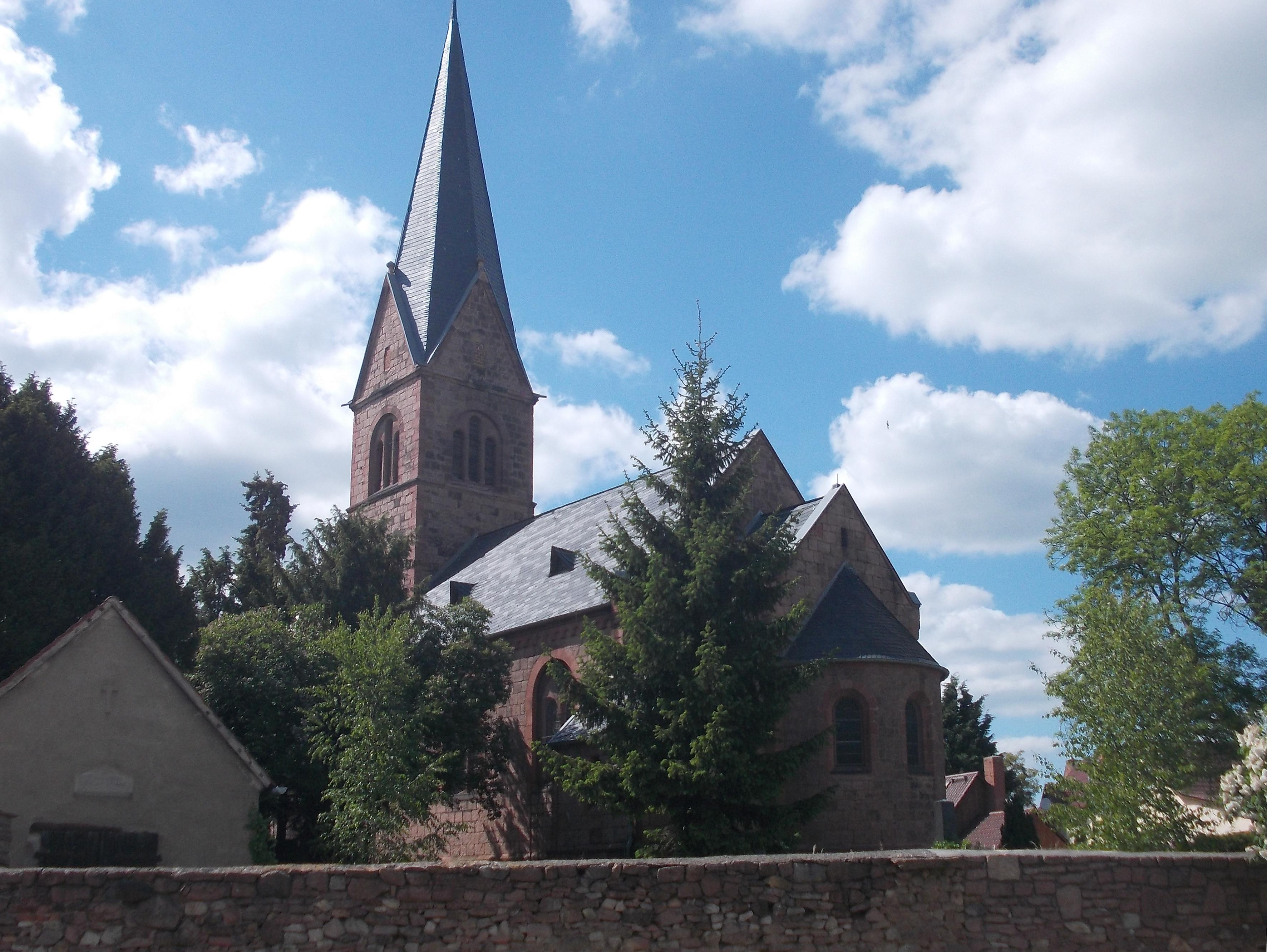 Schlettau church (Wettin-Löbejün, district: Saalekreis, Saxony-Anhalt)